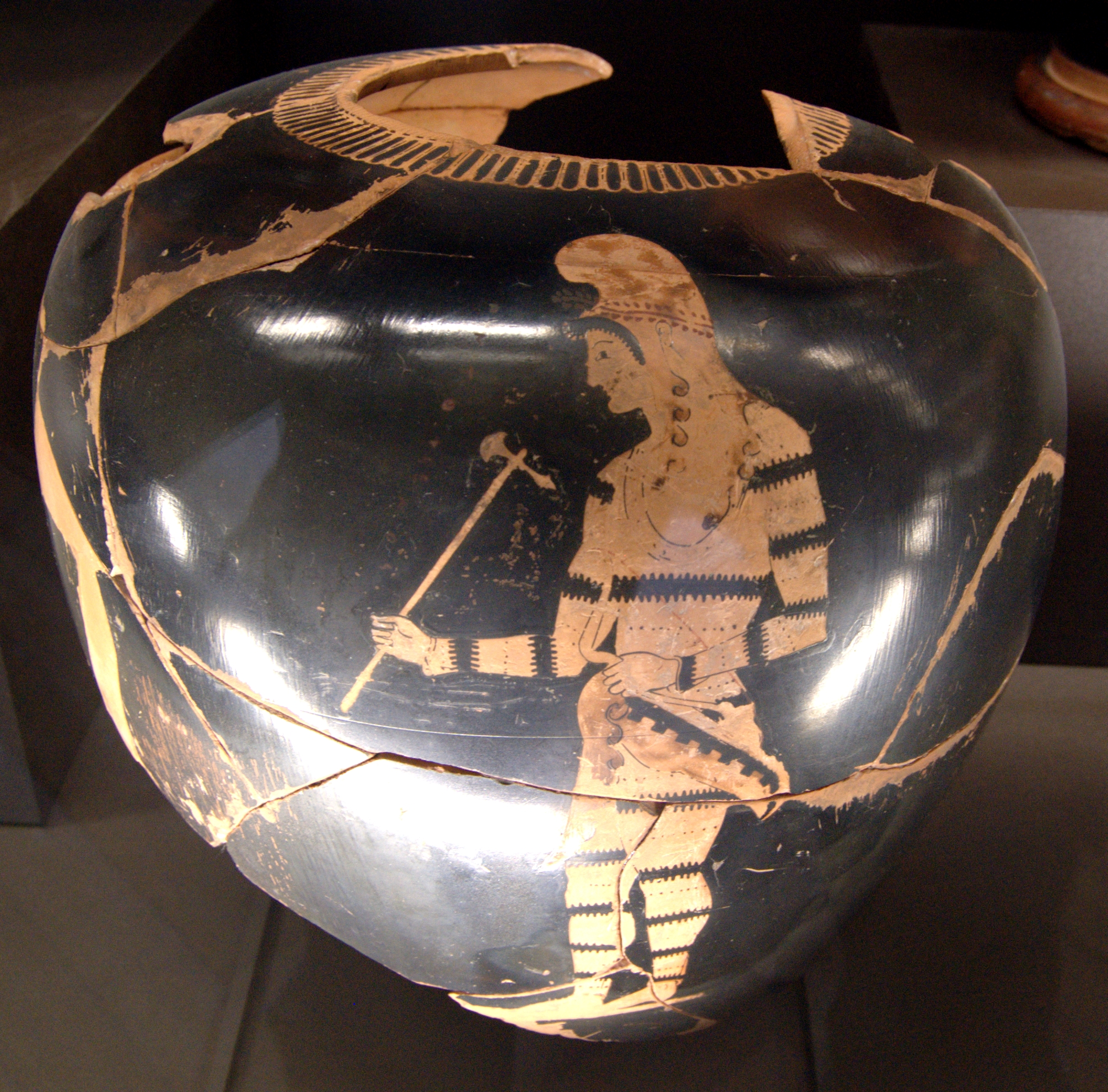 Scythian archer; inscription near the headdress: ‹Π›αντοχσενος. Side A from an Attic red-figure neck-amphora.